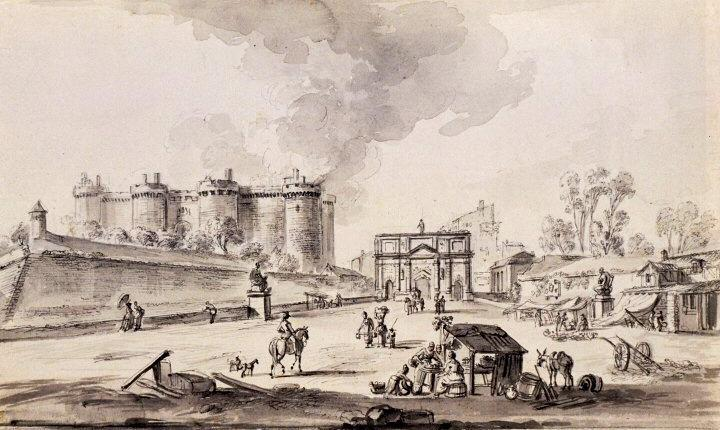 Bastille in 1789.